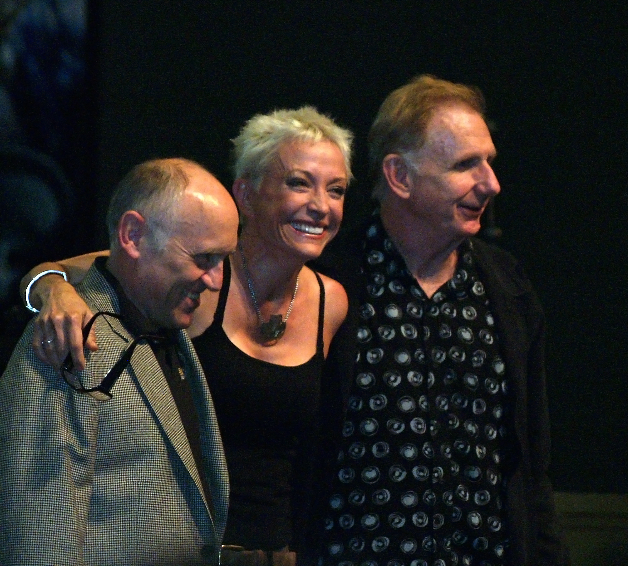 Armin Shimerman, Nana Visitor and René Auberjonois at a Star Trek convention in Las Vegas in 2008.